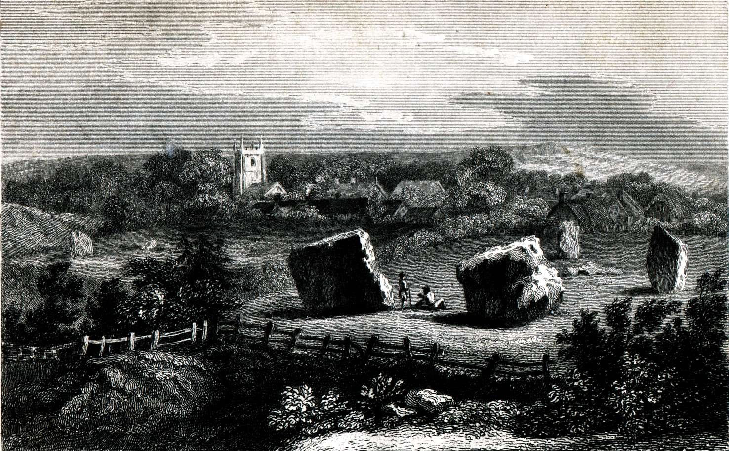 Engraved by McGahey. This engraving accompanied the December 1830 issue of the Youth's Instructor and Guardian, the article being entitled Druidical Temple, Avebury.